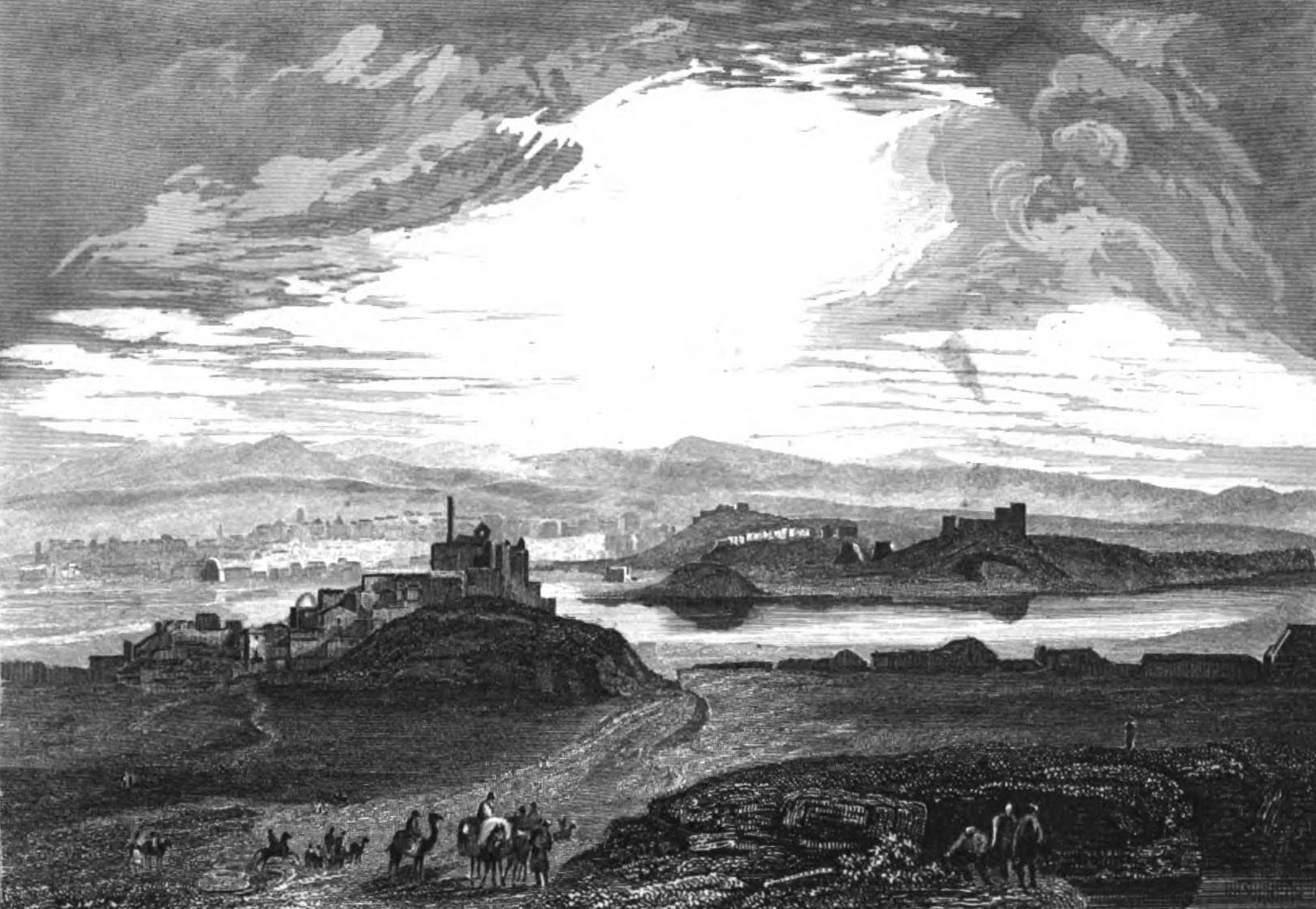 The city of Mosul, the ancient Nineveh